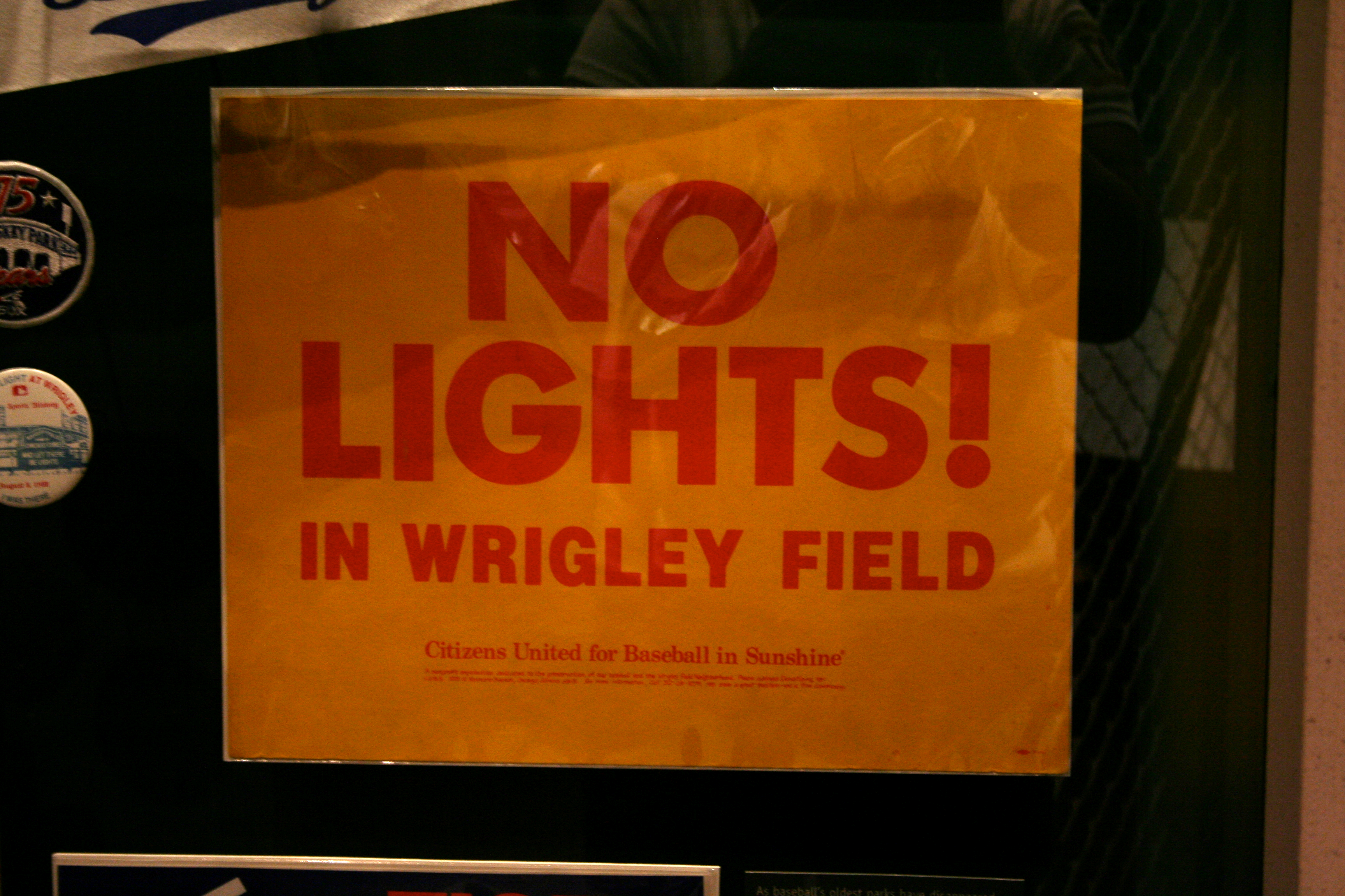 National Baseball Hall of Fame and Museum